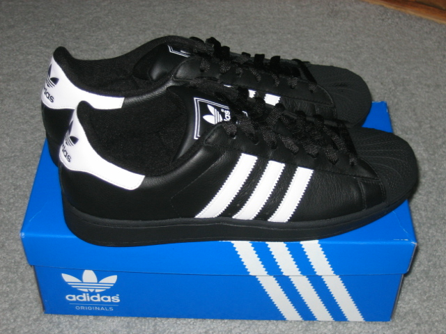 A newly bought pair of Adidas Superstar II.